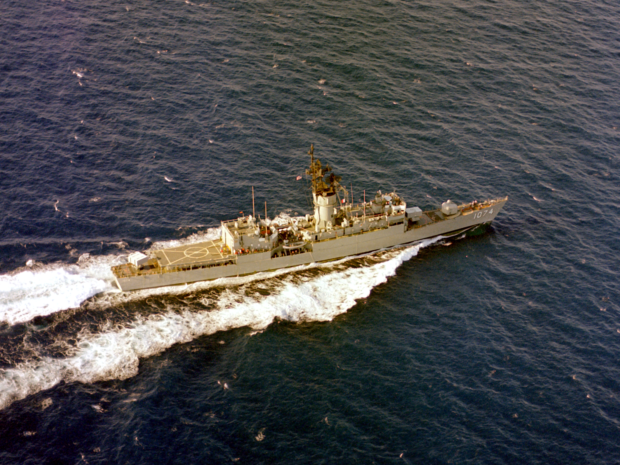 The U.S. Navy frigate USS Harold E. Holt (FF-1074) underway in the Pacific Ocean. Note: the date given "25 November 1991" has to be incorrect, as Harold E. Holt received the hightened bow and Phalanx CIWS aft some time after 1986.